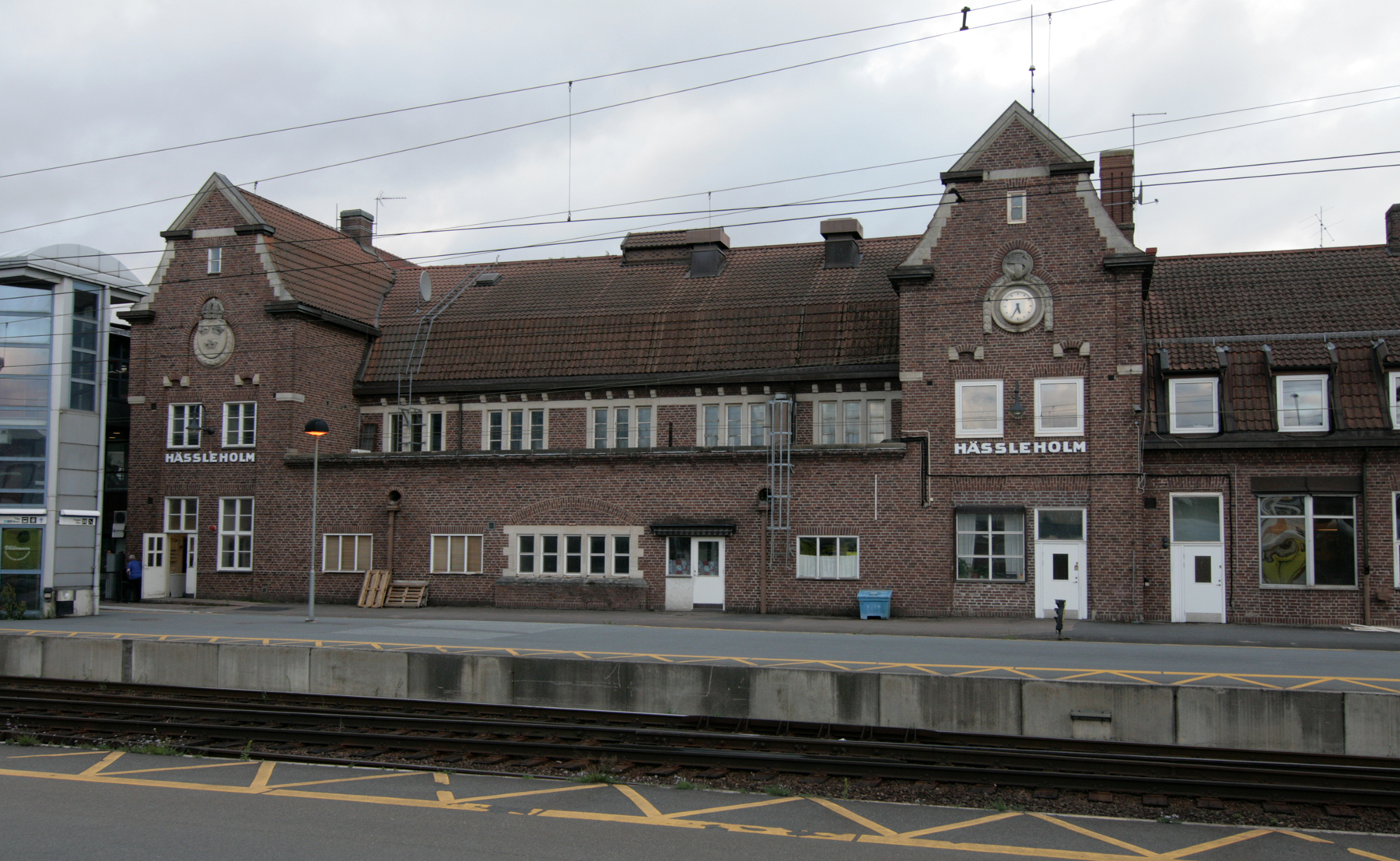 Hässleholm railway station, track side